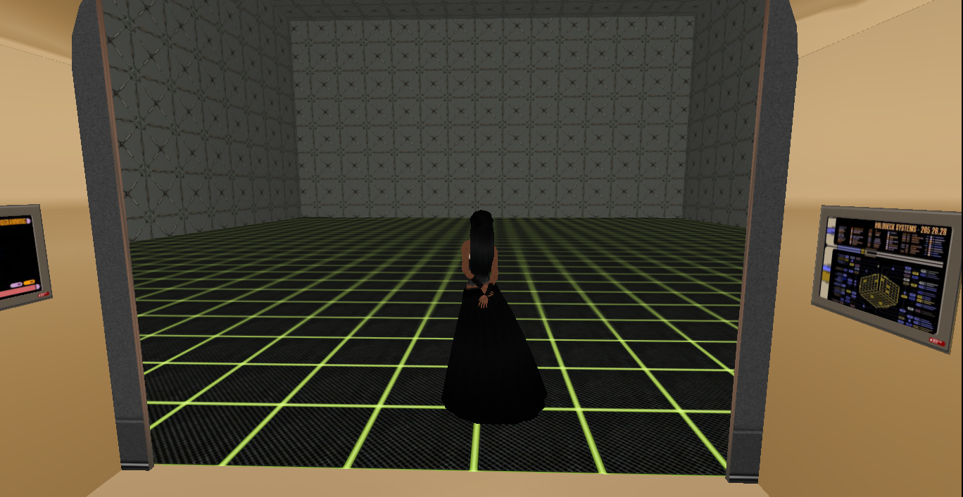 This is the holodeck as inactive aboard the spaceship USS Eclipse in Second Life. The person in the room is a female klingon.